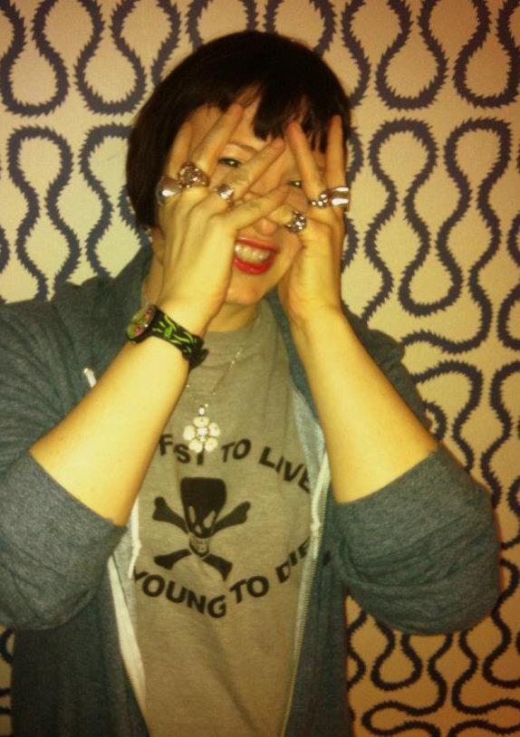 Photograph of Michelle Olley for the entry 'Michelle Olley'.